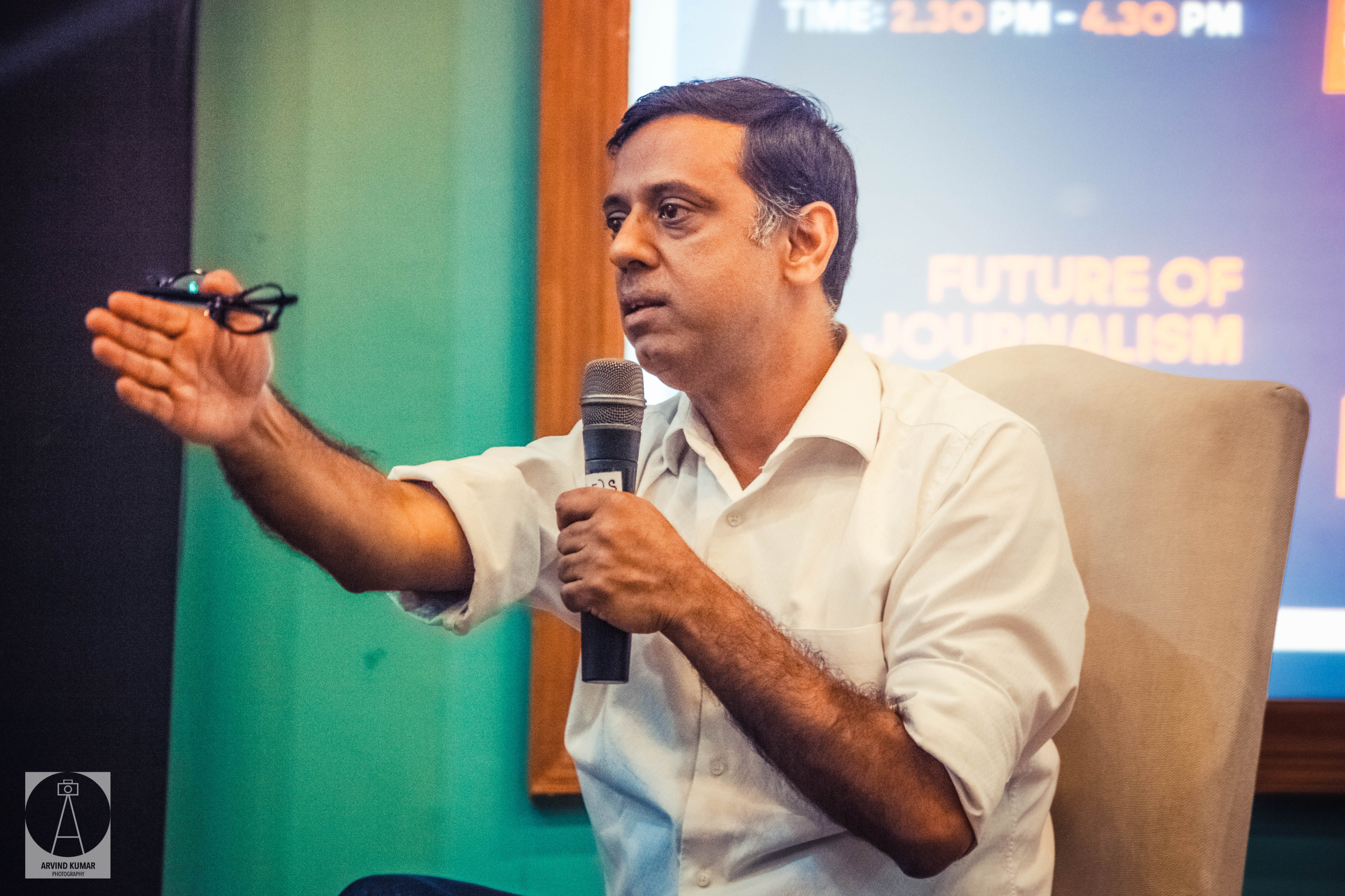 Discussion on Future of Journalism at Journalism Tomorrow conference of O.P Jindal Global University.